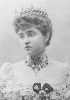 Victoria Josepha Sackville-West, mother of Vita Sackville-West